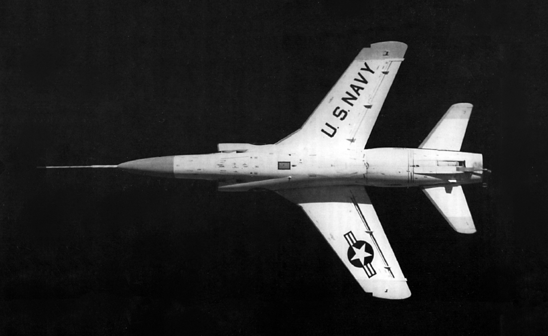 A Grumman F11F-1F Super Tiger photographed from below. Official description: "This photo taken from below the Grumman F-11 Navy fighter illustrates the way in which the area-ruled fuselage was adapted to production aircraft in the early 1950s."